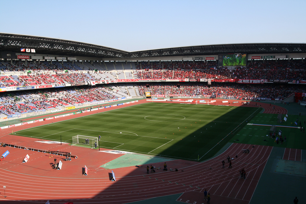 Yokohama F Marinos vs Urawa Reds taken at Nissan Stadium, Yokohama, Japan.